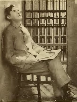 Frederick Burton as the convict in the American drama film Heliotrope (1920), on page 66 of the February 1921 Photoplay magazine.